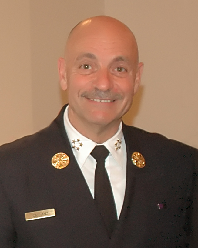 FDNY Chief Salvatore Cassano